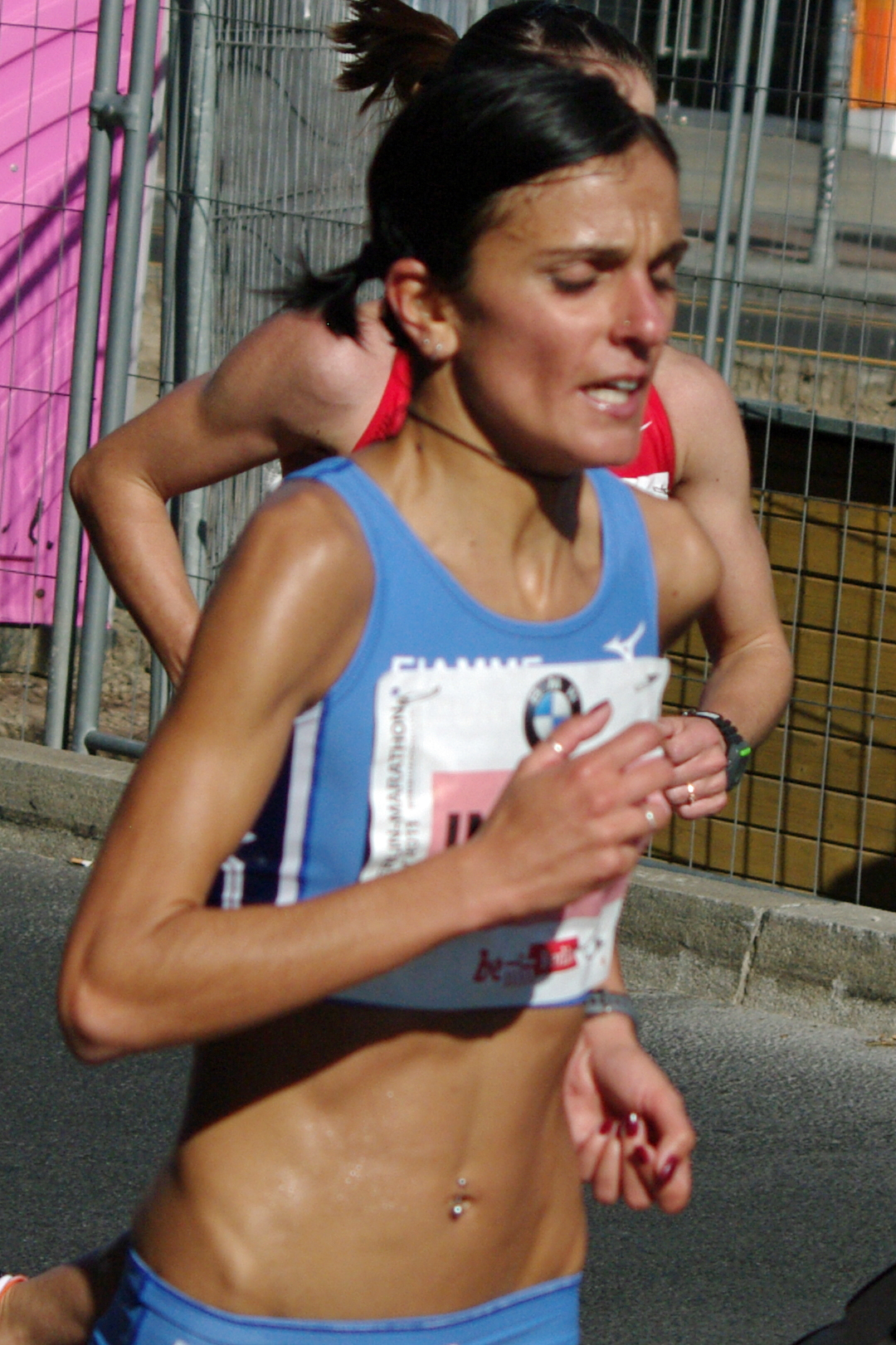 Anna Incerti running the Berlin Marathon 2011. Here at Kilometer 34, Tauentzienstraße